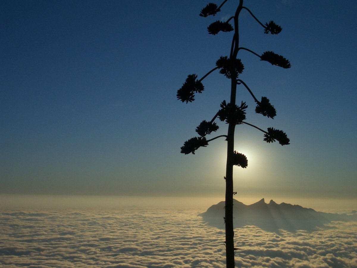 Monterrey desde el Cielo